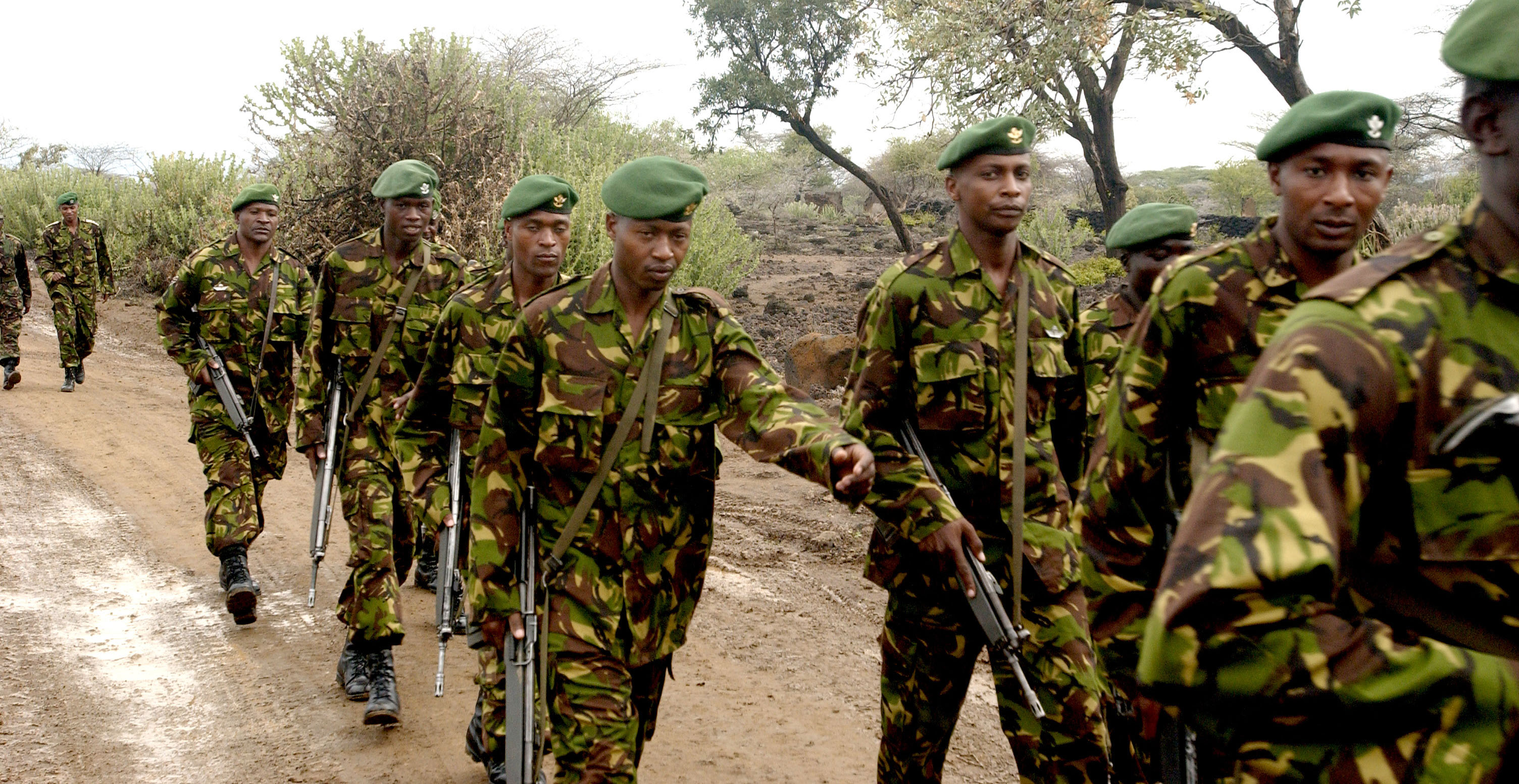 Kenyan military personnel march to Camp Great White to participate in the opening ceremony for exercise Natural Fire 2006 conducted at Nginyang Village, Kenya, Aug. 7, 2006. U.S. Air Force photo by Staff Sgt. Nic Raven